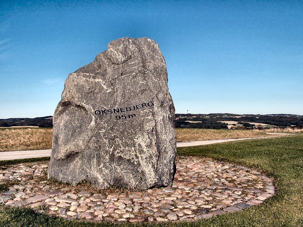 The 95 meter high hill Øksnebjerg near Frederikshavn, Denmark